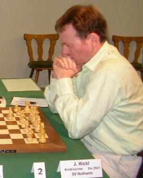 Joerg Hickl, April 2005 at Porz, German Chess Bundesliga 2004/05, Photographer Gerhard Hund.